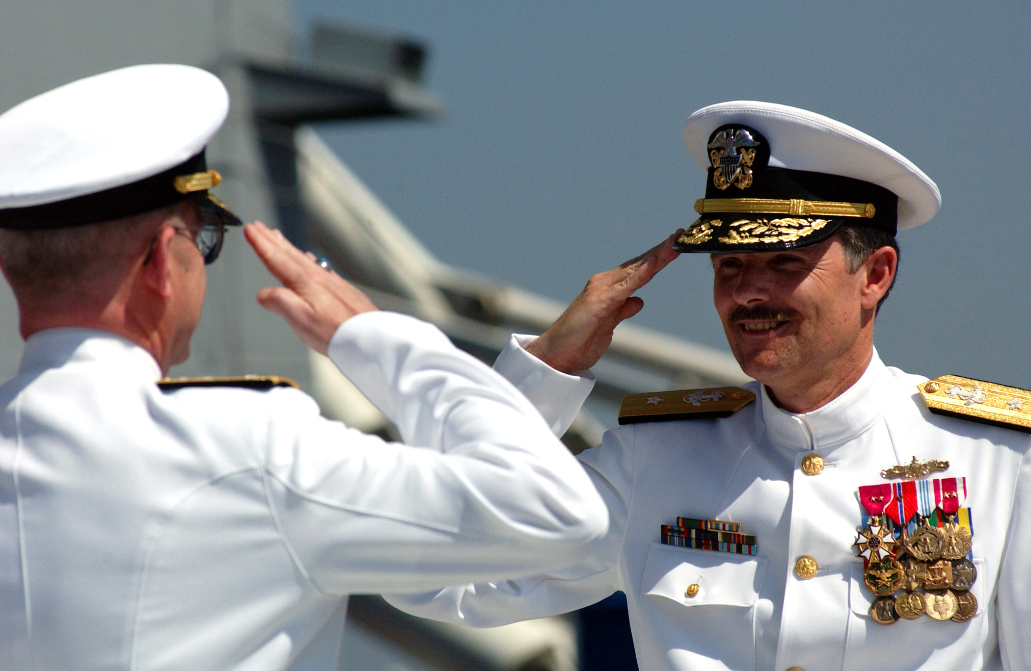 San Diego, Calif. (Aug. 6, 2004) - Rear Adm. Robert J. Cox, right, returns a salute to Rear Adm. Robert T. Moeller while taking command of Cruiser Destroyer Group ONE (CCDG-1) during a change of command ceremony aboard the aircraft carrier USS Ronald Reagan (CVN 76). U.S. Navy photo by Photographer's Mate 3rd Class Kitt Amaritnant (RELEASED)